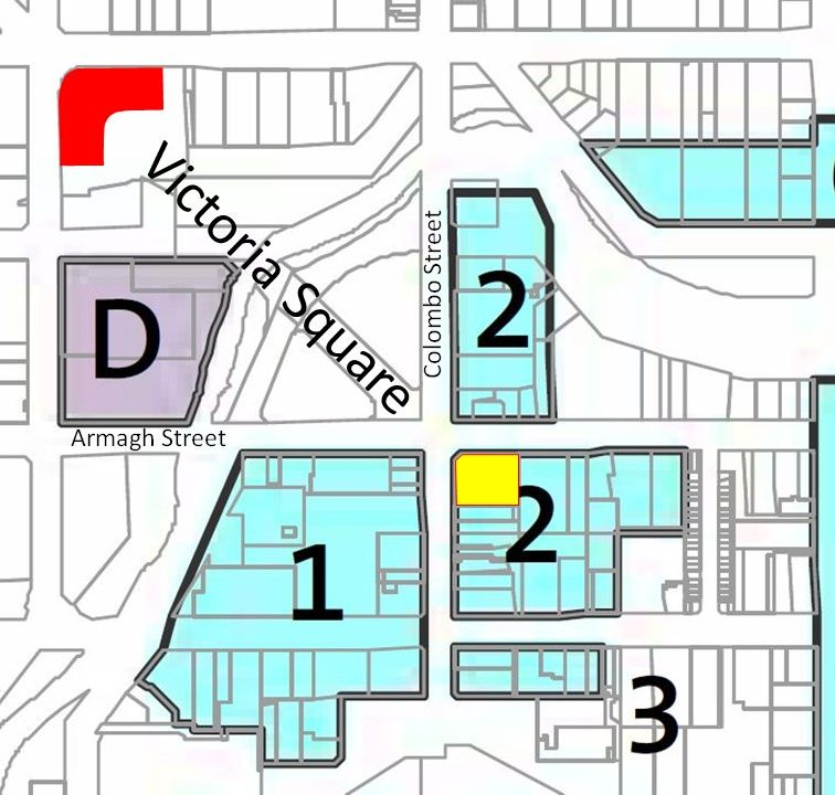 Area around Victoria Square showing planning designations, with the Forsyth Barr Building land highlighted within designation 2 (Performing Arts Precinct). The shape of the former Crowne Plaza hotel is shown in red.